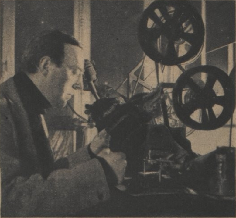 Paul Grimault working with a Moviola (Regards, 15/12/1945, page 17)